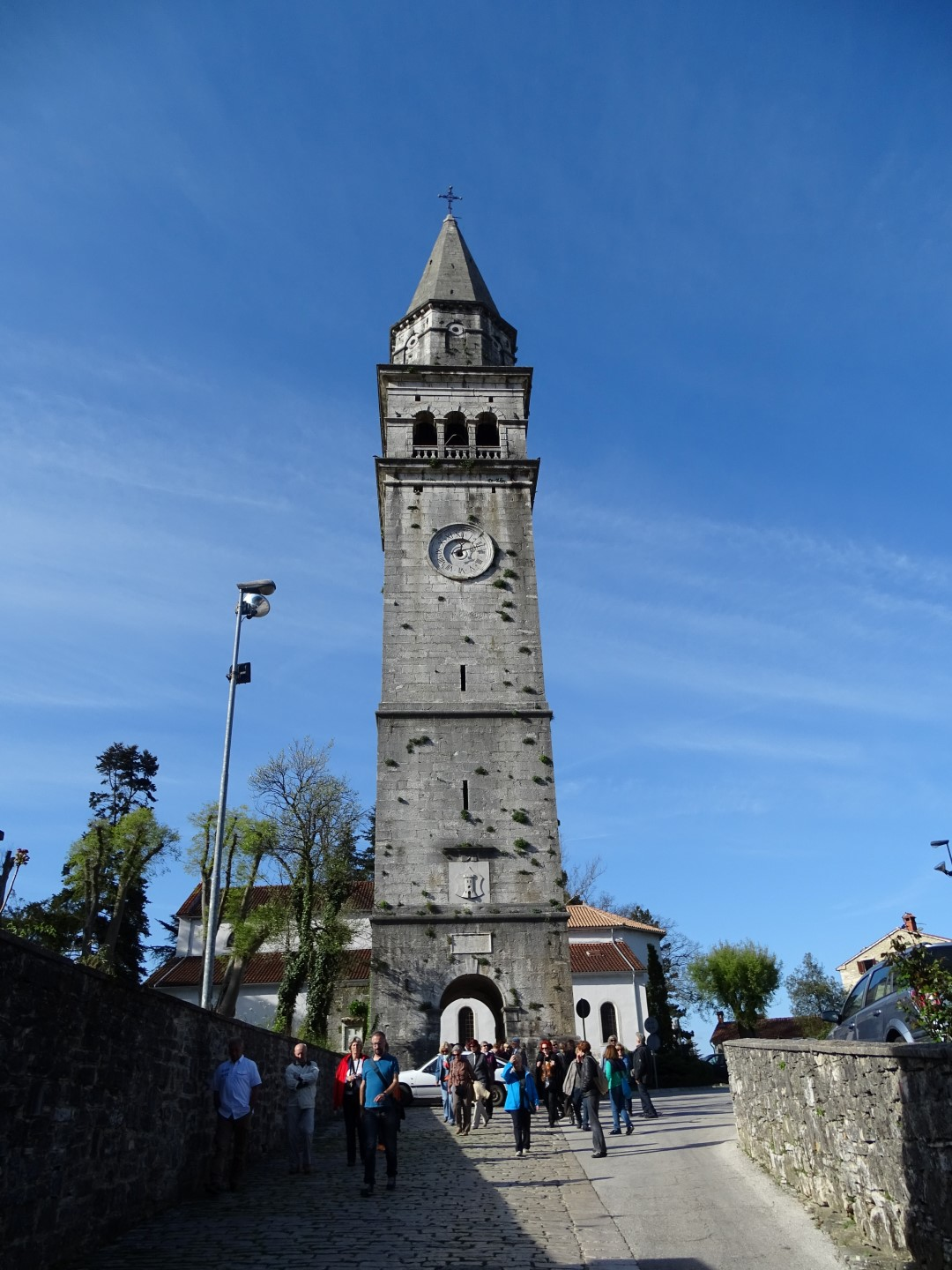 The Parish Church of St. Nicholas